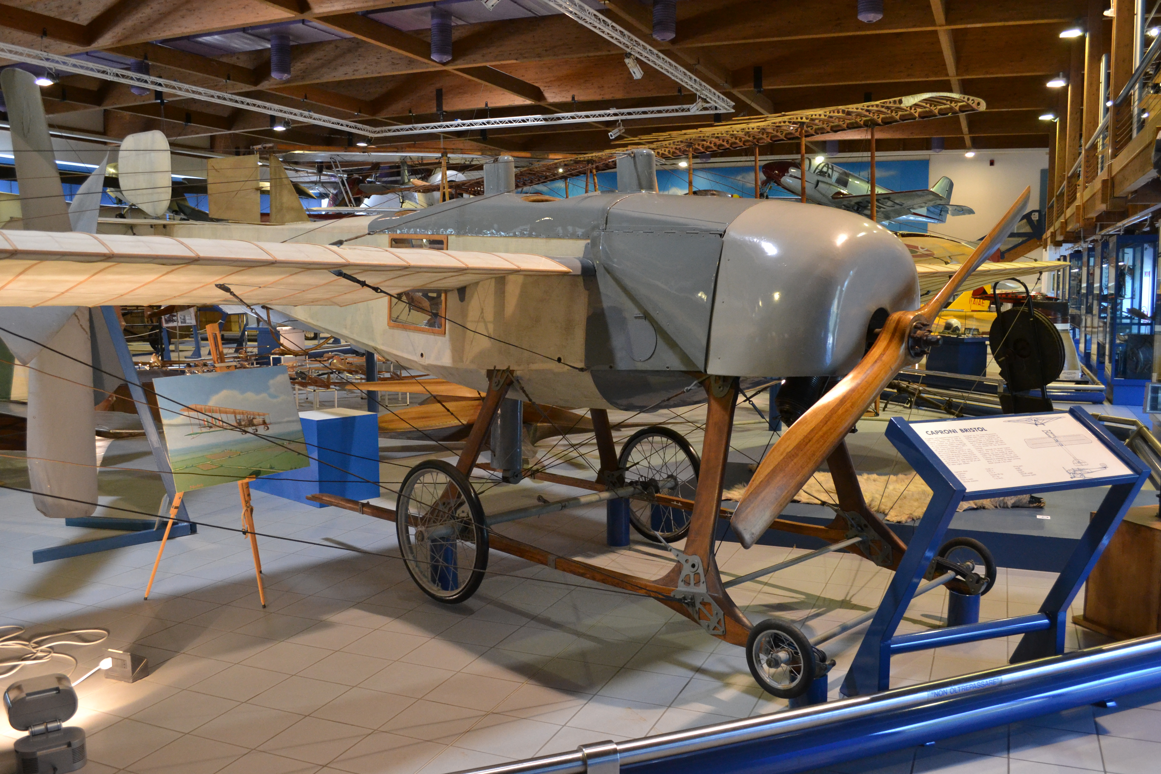 Three-quarter view of a Caproni Bristol trainer monoplane on display at the Gianni Caproni Museum of Aeronautics.